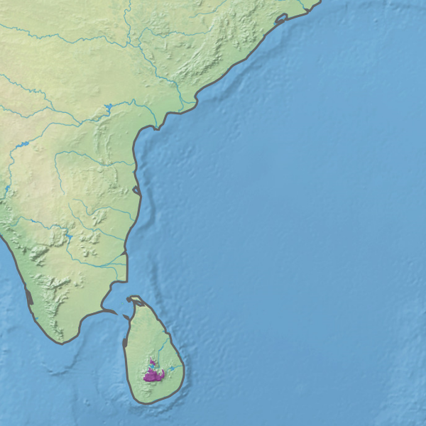 Ecoregion IM0155 - Sri Lanka montane rain forests (in purple)